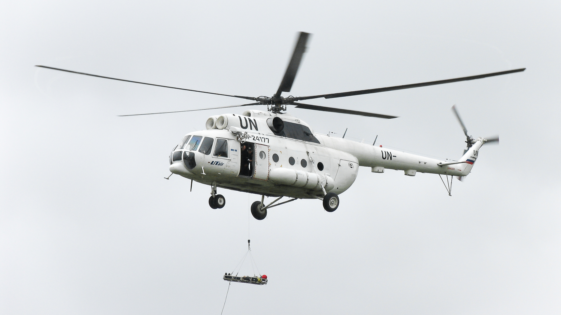 Mil Mi-8T United Nations (UTair Aviation) RA-24177